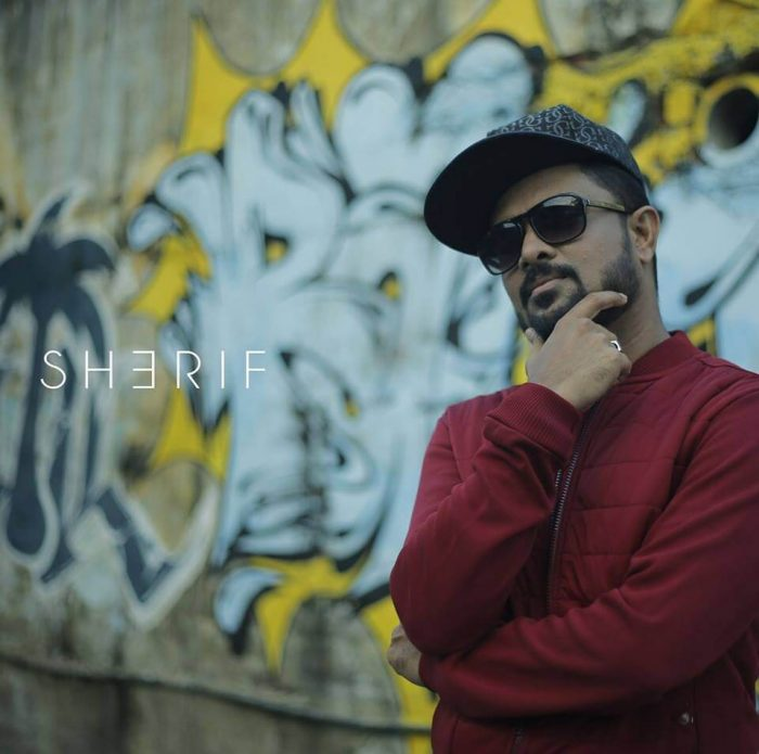 Talented and a well-known Indian Choreographer